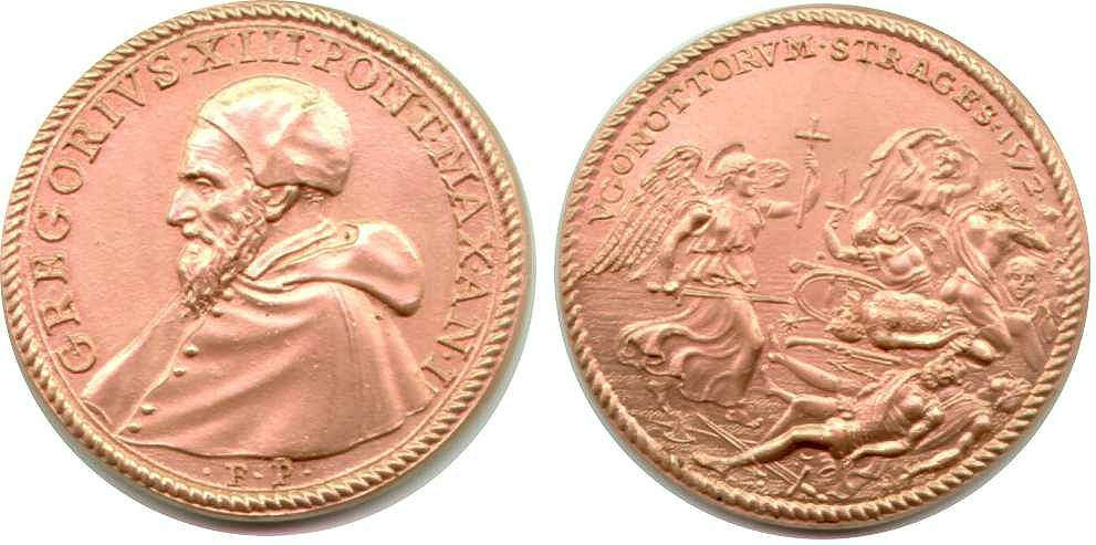 Bronze medal (31mm) commemorating the slaughter of 3,000 Hugenots in Paris on St. Bartholomew's Day (August 23-24) in 1572. Obv: GREGORIUS XIII PONT. MAX. AN. I (="Gregory XIII. Pontifex Maximus year 1"), Rev: VGONOTTORVM STRAGES 1572 (="Massacre of Huguenots, 1572")